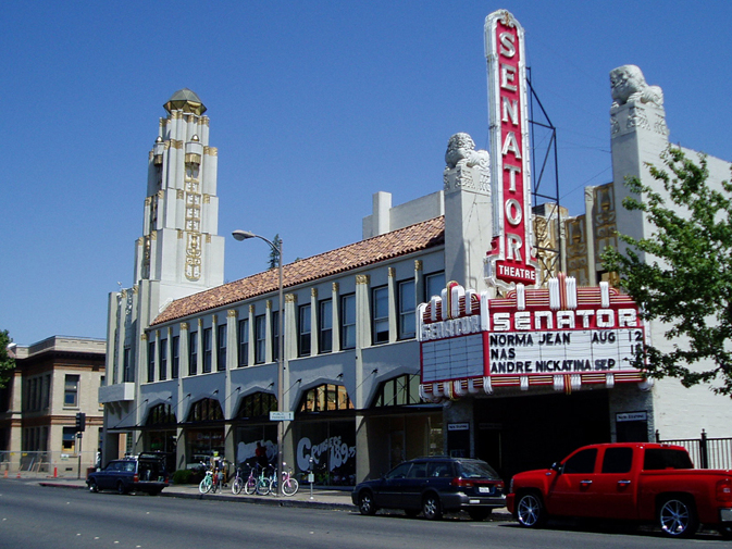 Downtown Chico, California